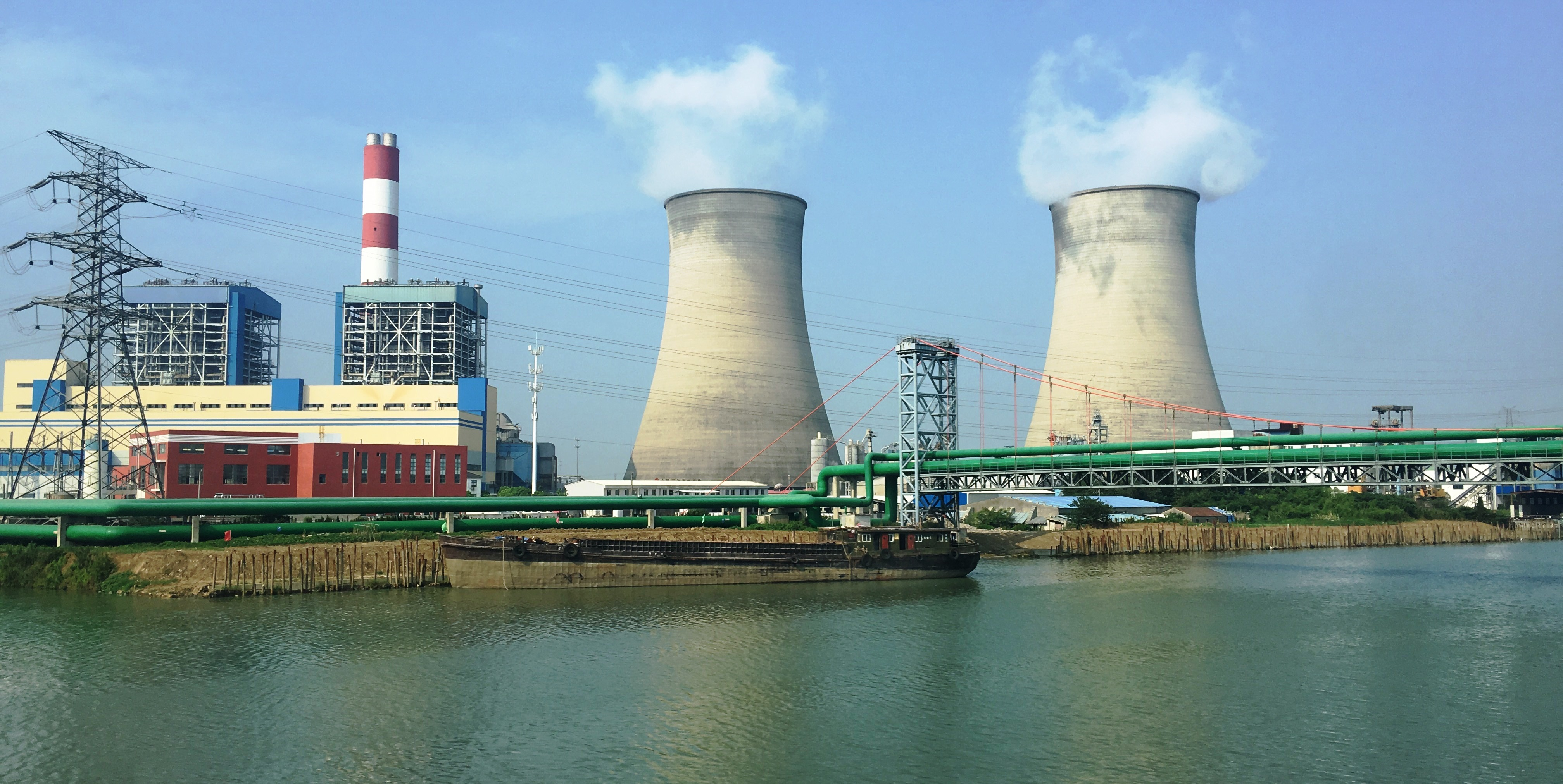 The "Jiangsu Huadian Wangting Power Station", a combined-cycle, gas fired Power plant in Suzhou, near Wuxi, in Jiangsu province (China). The river is the Wangyu.